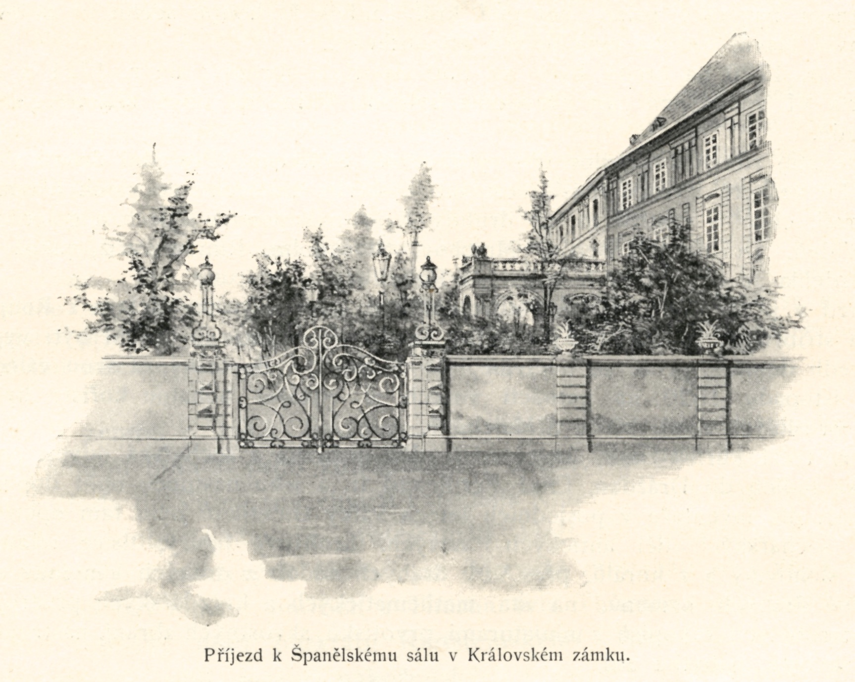 Prague castle garden Na Baště (4th courtyard) from south. Situation before WWI.